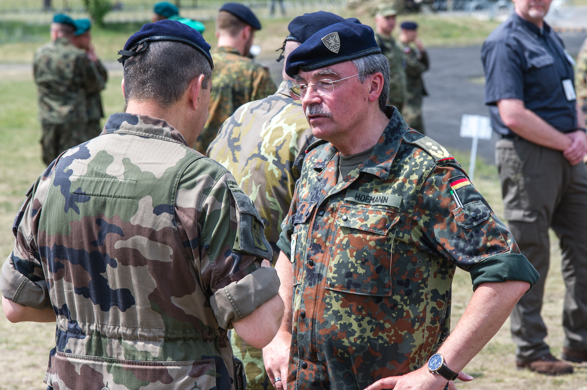 This has been a turning point in the history of the Headquarters Multinational Corps Northeast (HQ MNC NE). With the successful completion of the exercise „Brilliant Capability 2016”, the Corps – Custodian of Regional Security – has become operationally capable to assume command of the Very High Readiness Joint Task Force, also referred to as the “spearhead force”. I strongly believe that our team effort will provide tremendous value to NATO. – said Lieutenant General Manfred Hofmann, the Corps Commander, on the occasion of the Distinguished Visitors Day, which took place in Szczecin, 2nd June.